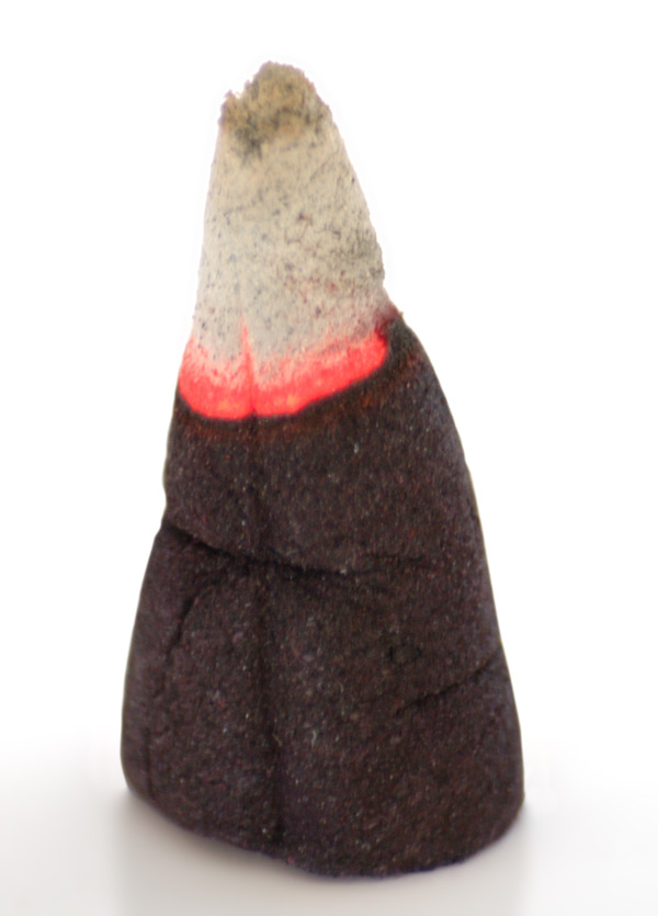 This image shows a "Räucherkerzchen" (a kind of incense).